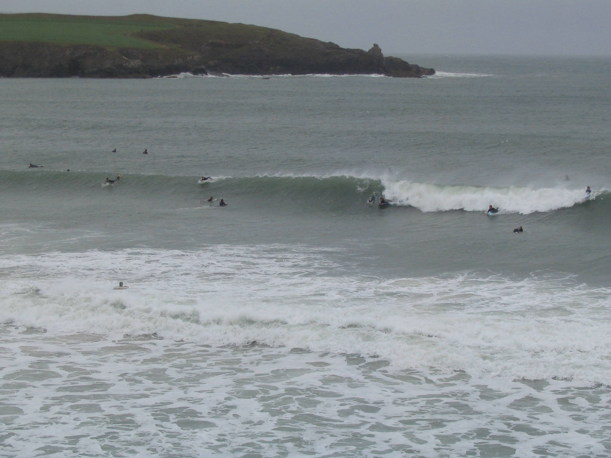 Harlyn by taken by jschwa1 in September 2005